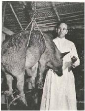 Fr. William Ulrich, SJ, originator of cooperatives among Maya in Toledo District, Belize, CA